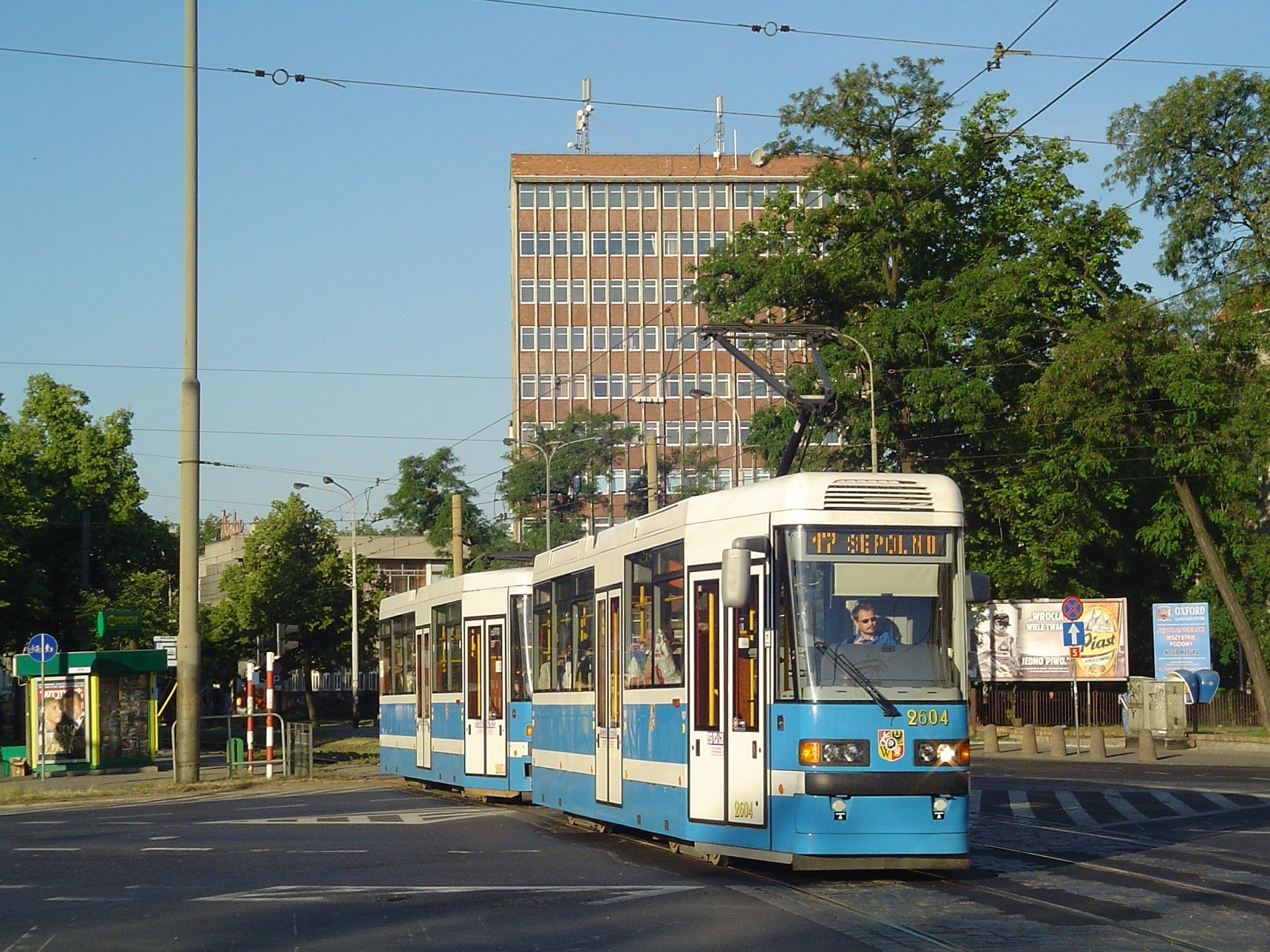 Protram 204 WrAs tram in Wrocław, Poland